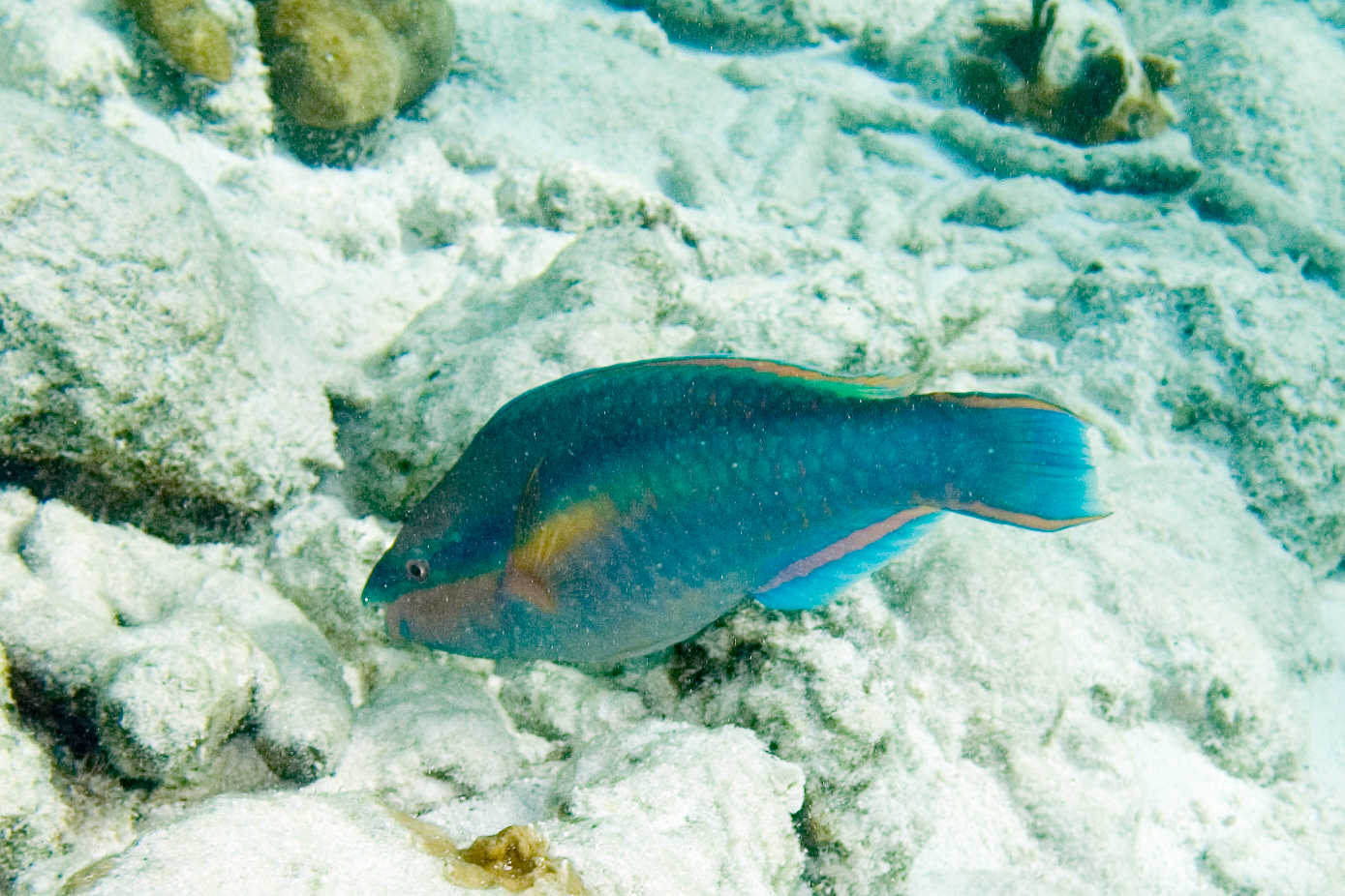 terminal phase